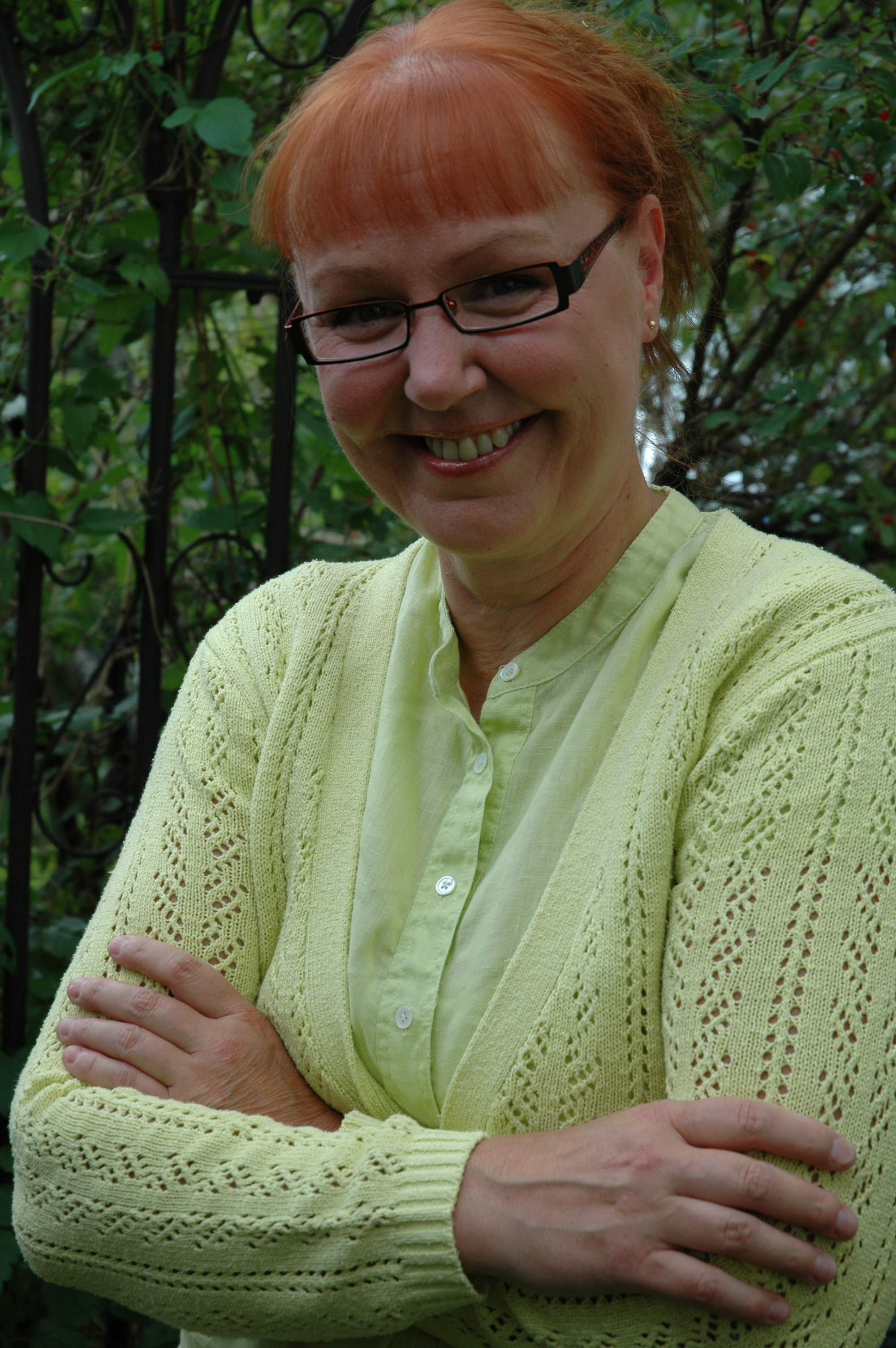 Paula Ritanen-Närhi